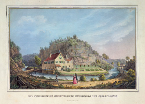 Fischer Steel Mills in the Mühlental near Schaffhausen, c. 1850